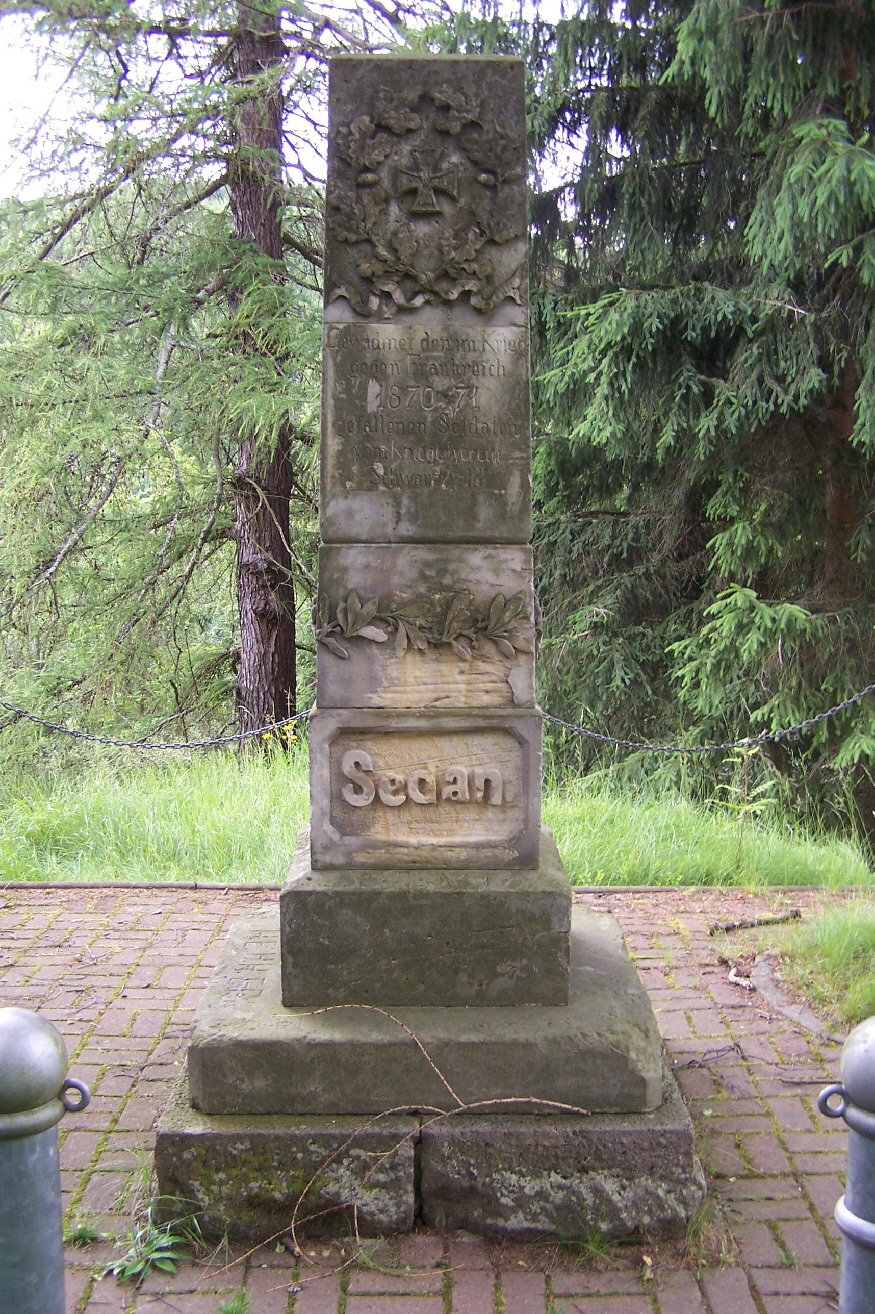 The SEDAN memorial in Luisenthal